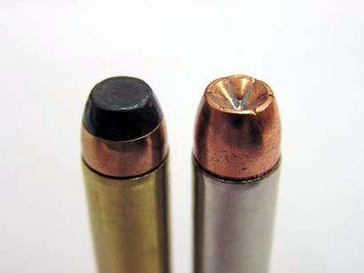 en:357 Magnum rounds showing the difference between JSP and JHP bullets. Image made by ReconTanto for Wikipedia.